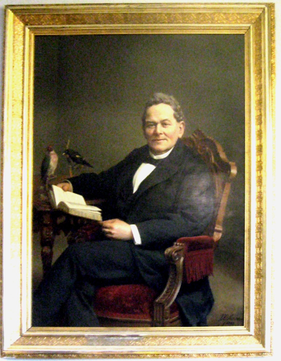 Painting of Hermann Schlegel (1804-1884) by Johan Neuman (1819-1898), located at Museum Naturalis (Leiden, NL), 2015